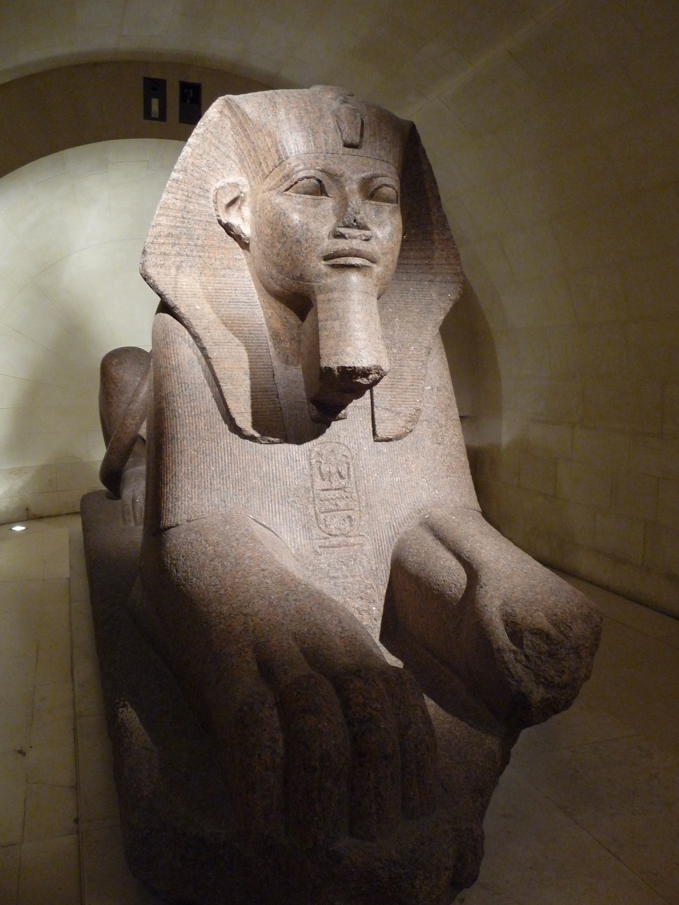 Great sphinx bearing the names of Amenemhat II (12th Dynasty), Merneptah (19th Dynasty) and Shoshenq I (22nd Dynasty).